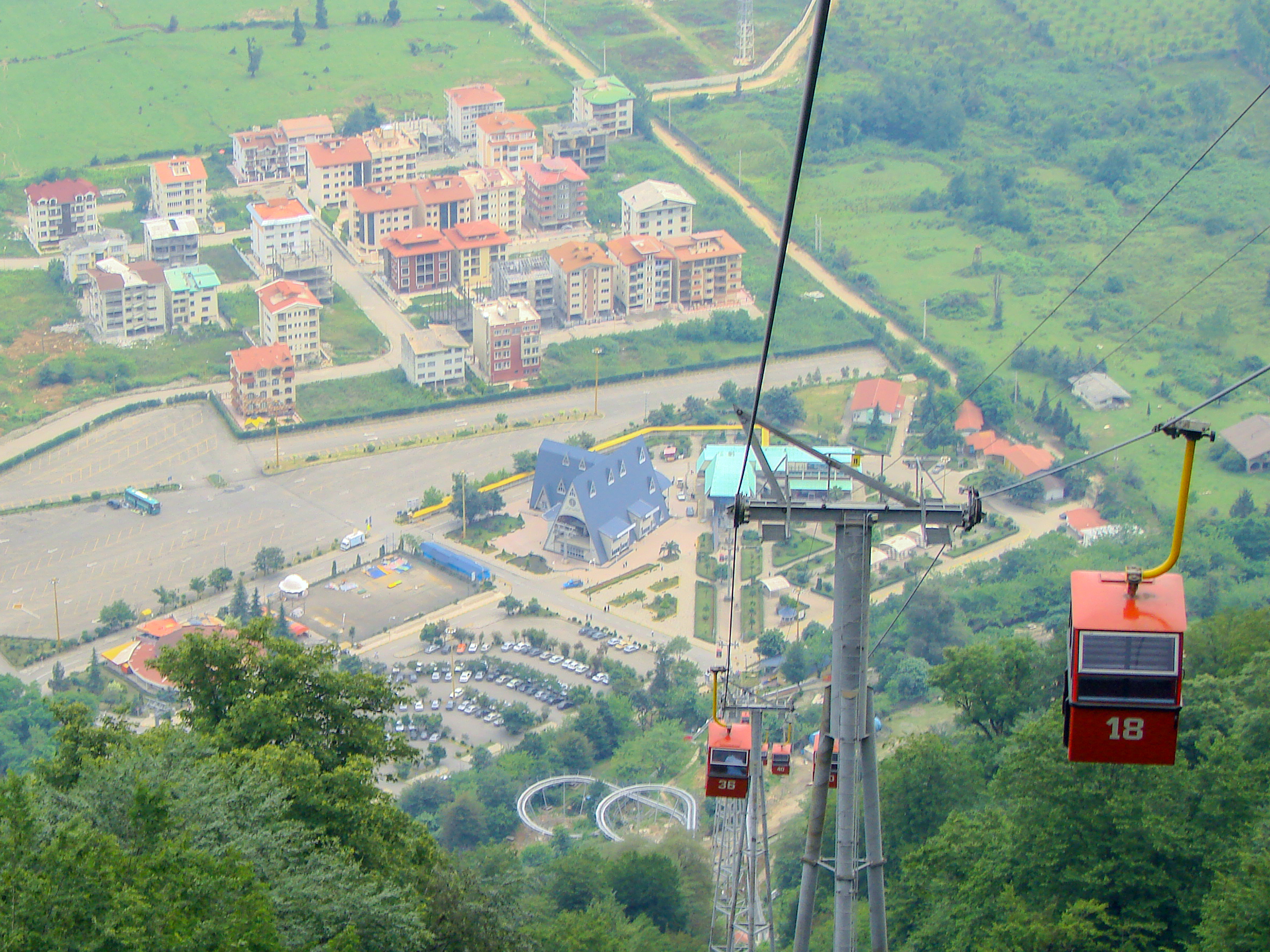 Shahrak-e Namak Abrud is a touristic village and has an aerial tramway which starts at the sea level near the shores of the Caspian Sea and ends on the top of the Alborz heights crossing dense forest area of northern Iran. There are numerous villa cities around it which form a vacation region for the people of Tehran.